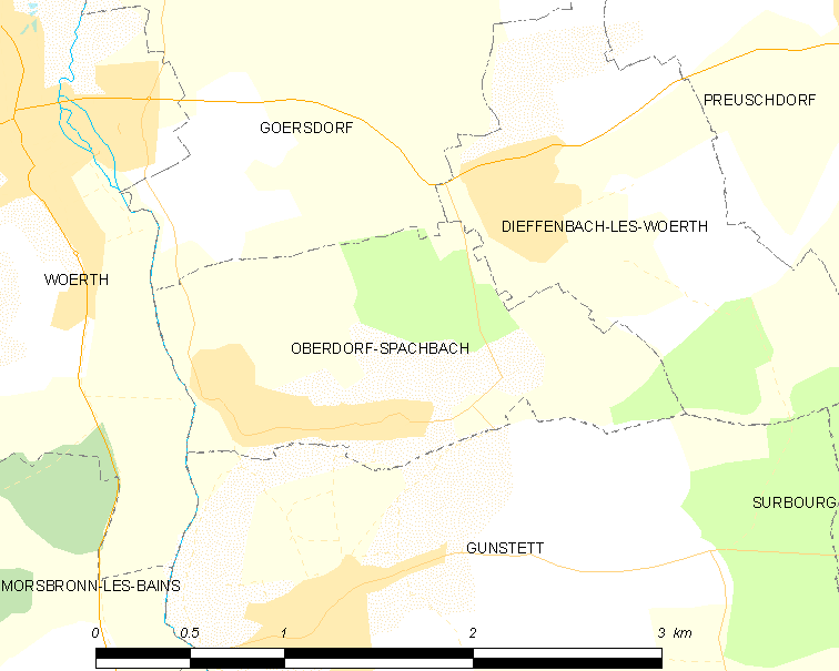 Map of French municipality